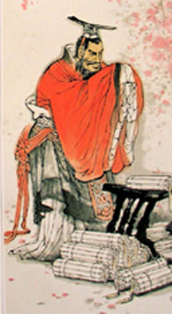 Portrait of Wei Wen Hou